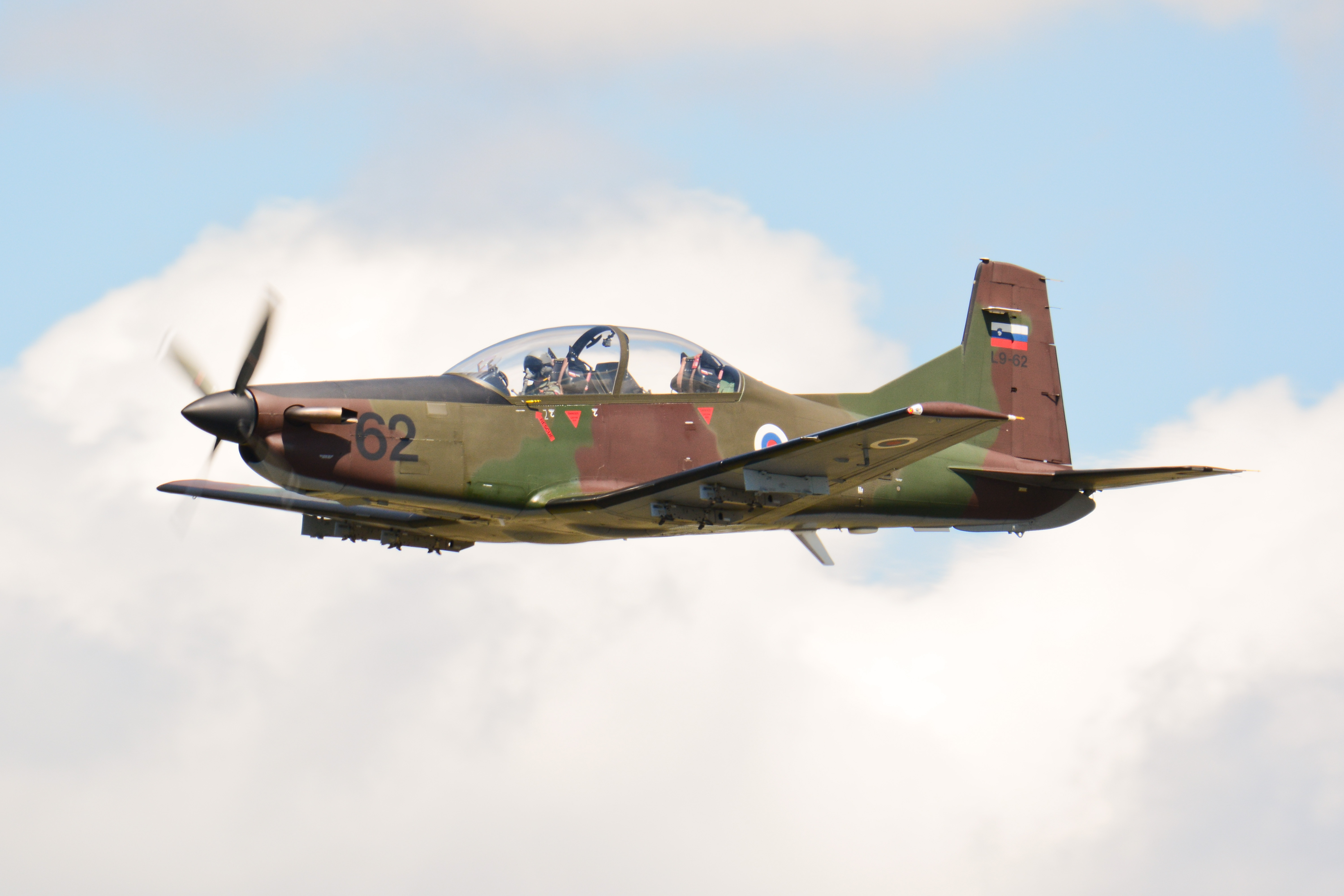 Slovenia Air Force - Pilatus PC-9M Swift